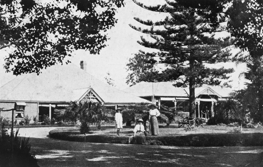 Bellevue Homestead, Brisbane Valley, ca. 1914 Bellevue House with unidentified women on the front drive. In 1975-1980 the National Trust restored Bellevue Homestead and outbuildings after moving them from the banks of the Brisbane River to the entrance of the property at Coominya.